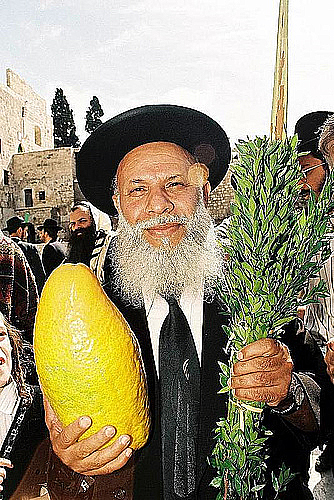 A VERY VERY BIG ETROG,A MAN MAKING THE BLESSING OVER THE LULAV AND ETROG AT THE WESTERN WALL